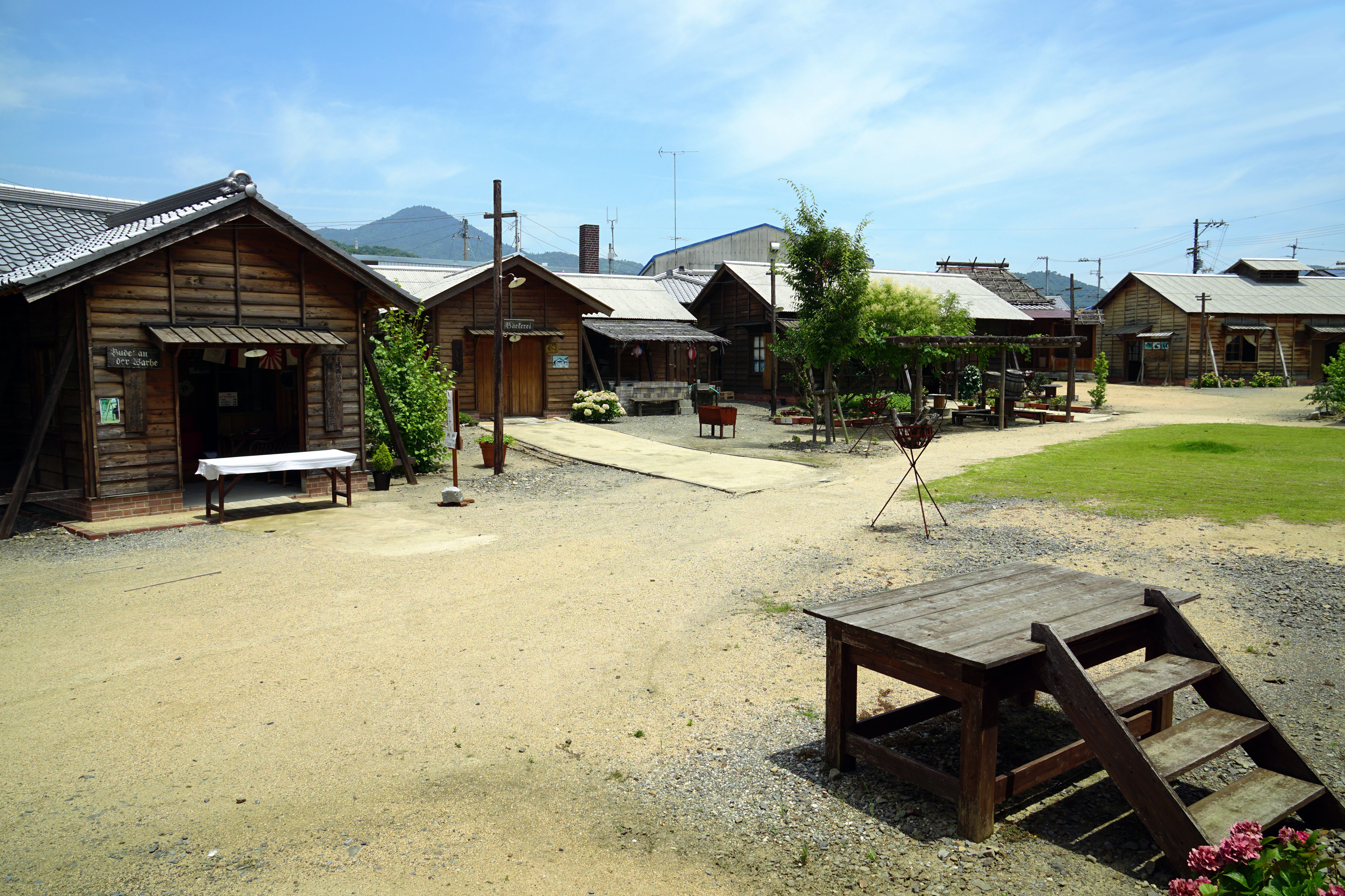 The museum of the history of Bandō prisoner-of-war camp "Baruto-no-niwa" in Naruto, Tokushima prefecture, Japan.